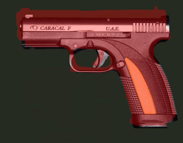 Caracal F Pistol superimposed over the Springfield Armory XD pistol contour. Caracal pistol compared / DCB Shooting